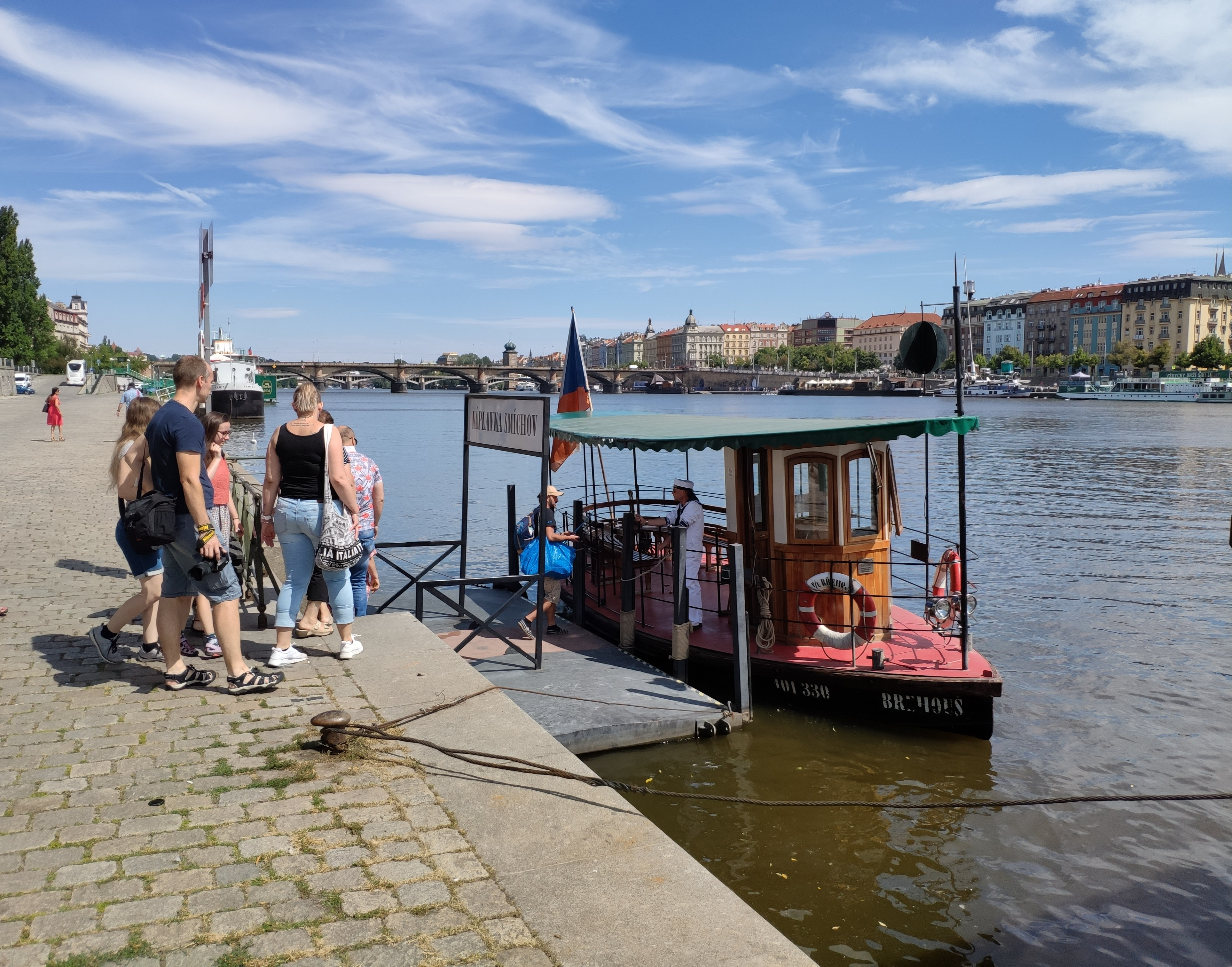 Tourists are entering a ferry at "Náplavka Smíchov" station, in Prague.